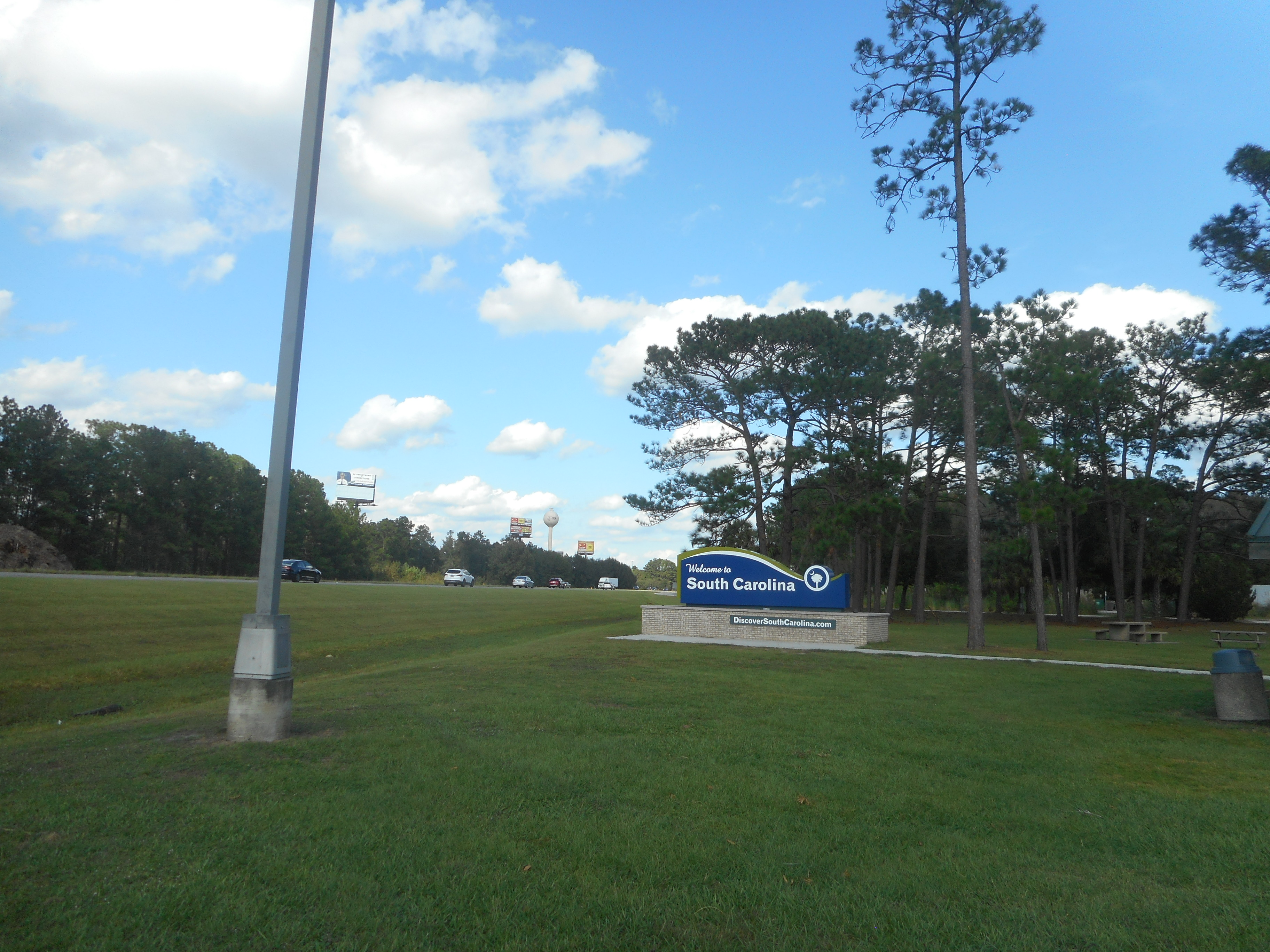 A newer version of the Welcome sign at the northbound Interstate 95 Welcome Center in Hardeeville, South Carolina. Added after the mid-2010's reconstruction of the welcome center, and seen from the cars parking area.